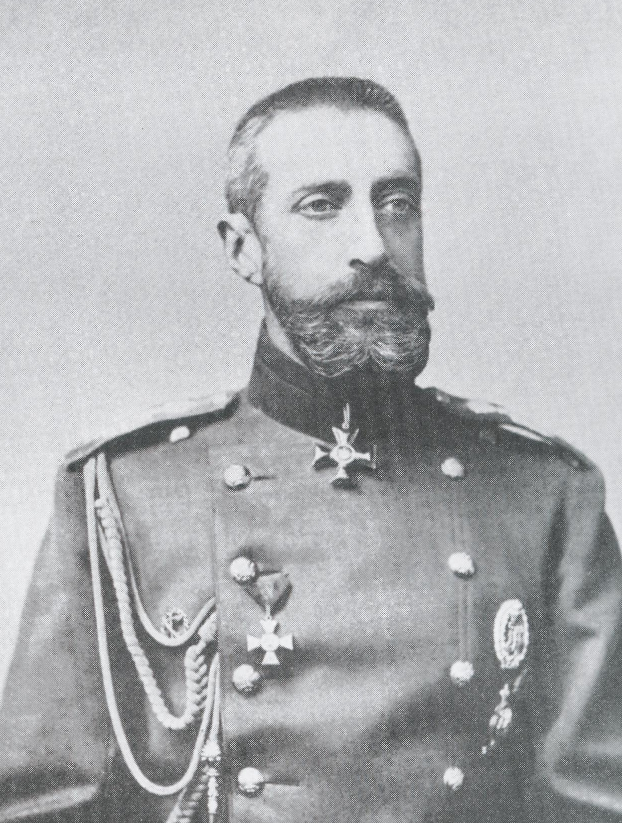 photo Grand Duke Konstantin Konstantinovich of Russia (1858–1915)